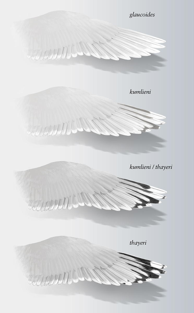 Wing pattern in Iceland Gull (Larus glaucoides glaucoides), Kumlien Gulls (L. g. kumlieni) and Thayer’s Gull (L. (g.) thayeri)